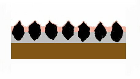 Cross section of the typical coated abrasive